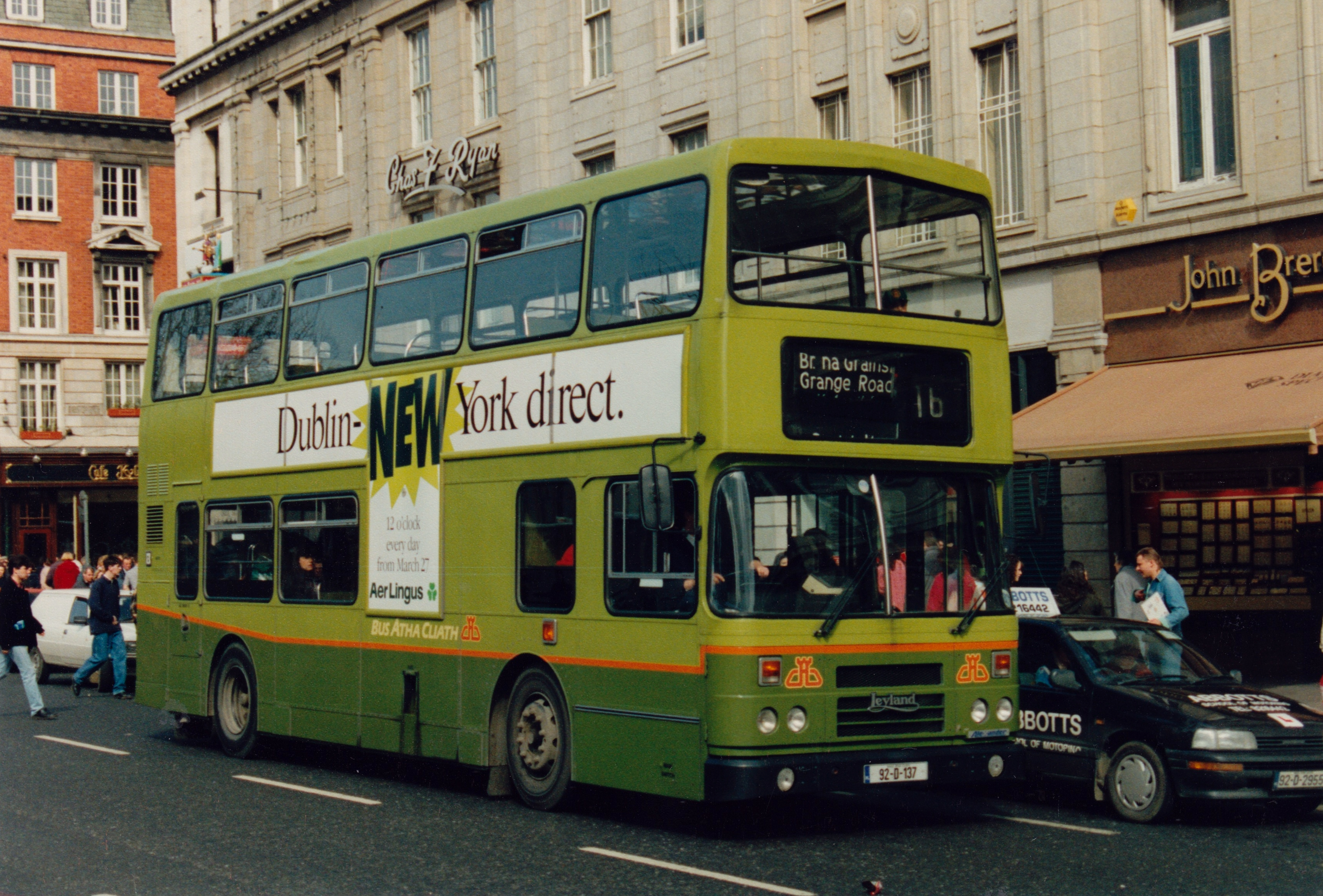 RH137 24.3.94 O'Connell Street Route 16 to Grange Road Rathfarnham